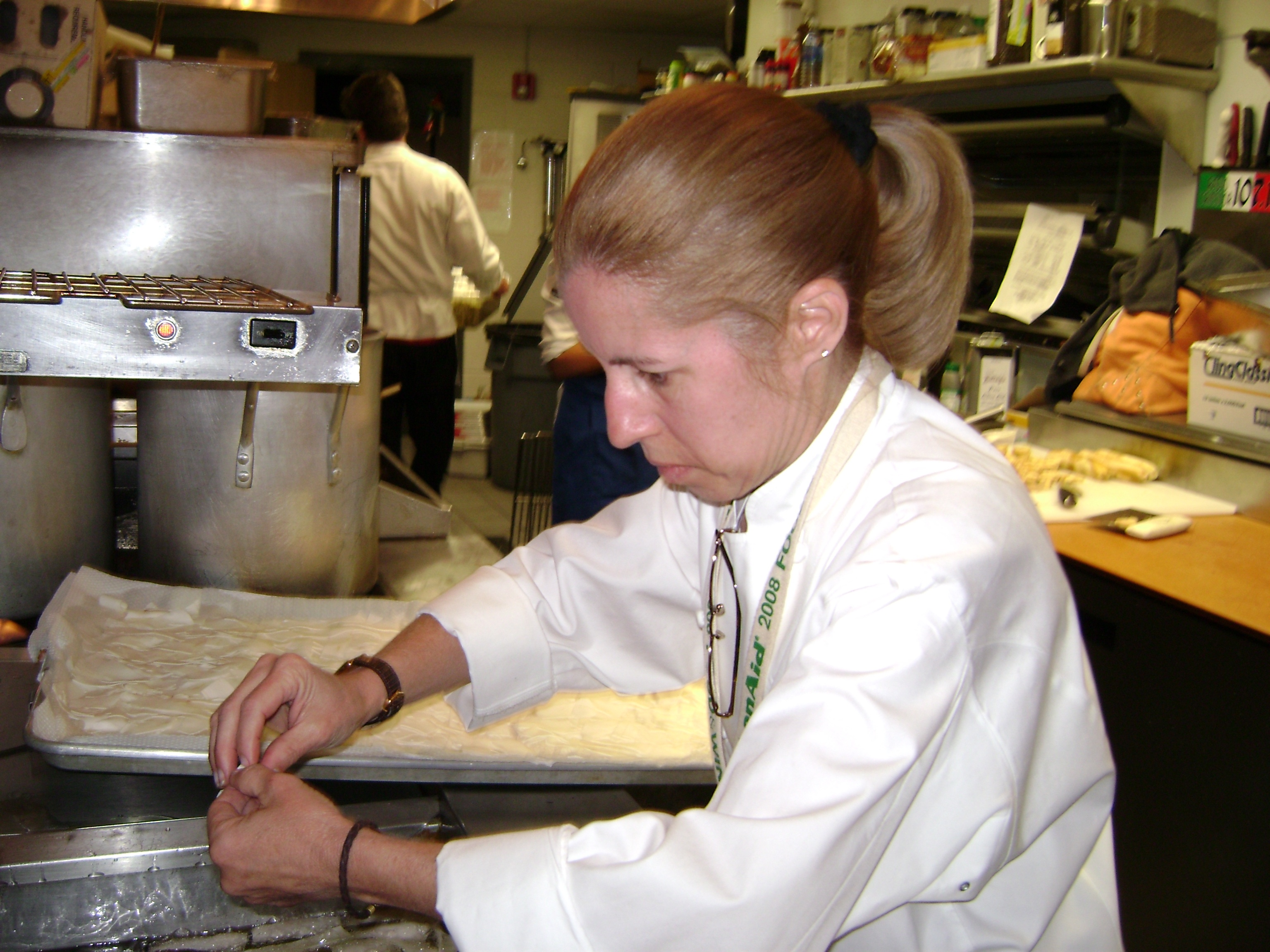 Chef Carmen Gonzalez